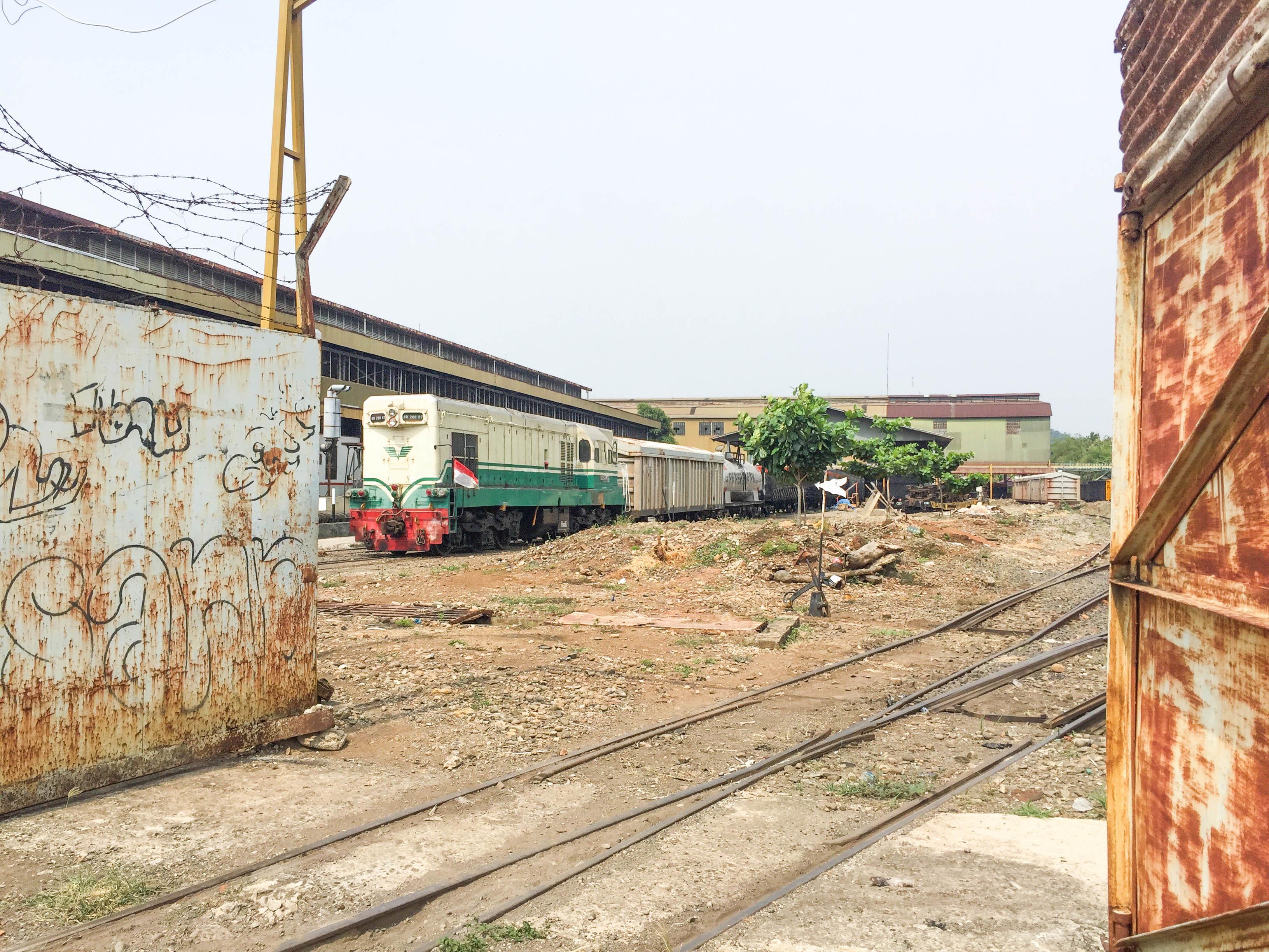 BB 200 07 at Balai Yasa Lahat 2